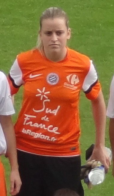 Solène Durand (Montpellier), women soccer